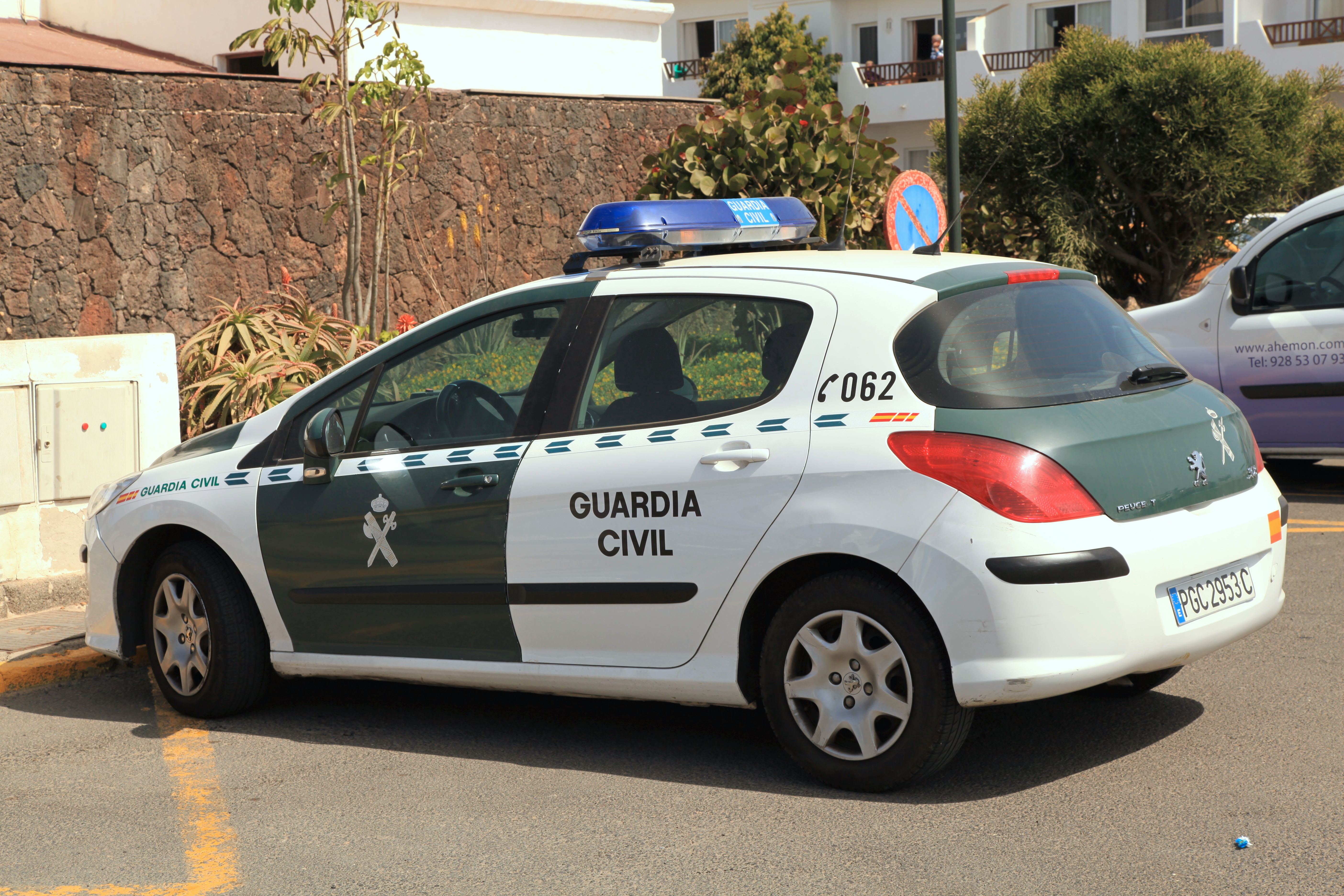 Port at Calle del Castillo, Caleta de Fuste in Antigua, Fuerteventura, Canary Islands